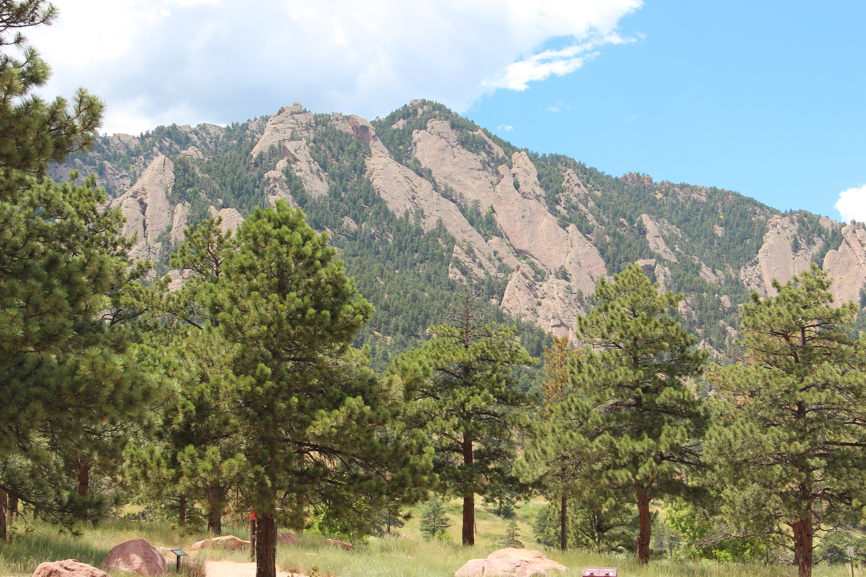 Green Mountain viewed from the National Center for Atmospheric Research